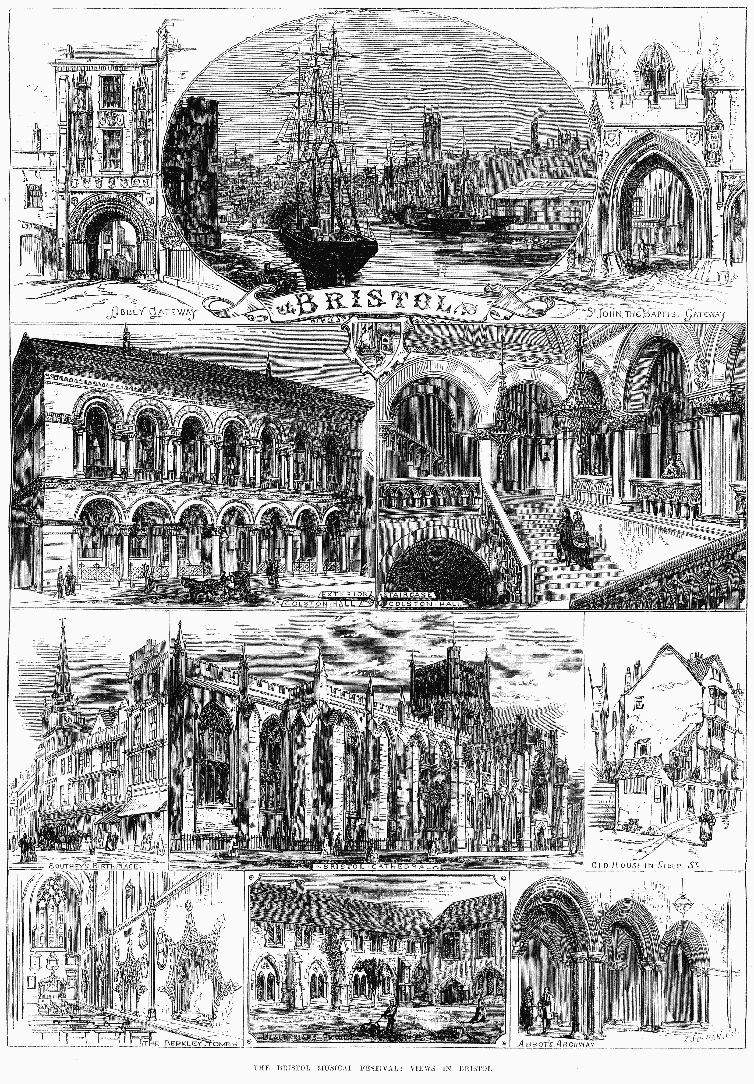 Overview of historic sites in Bristol. (Original title "The Bristol Music Festival: Views in Bristol")